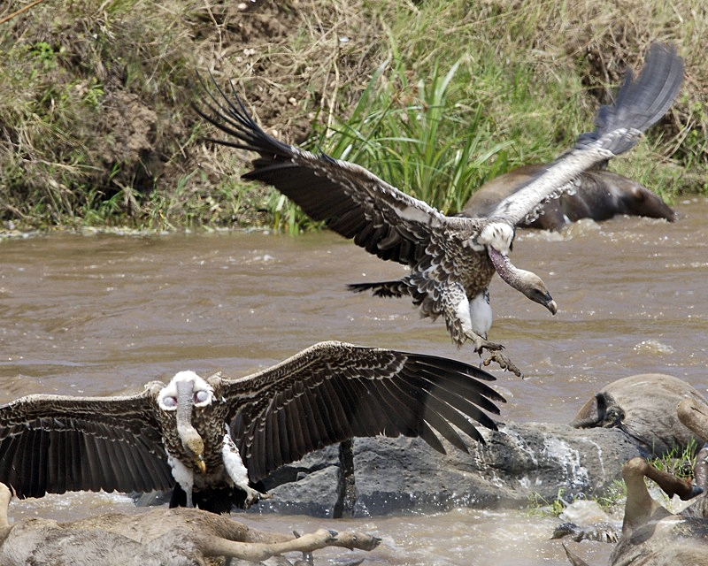 Rüppell's vultures (Gyps rueppellii) in Masai Mara National Reserve, Kenya. Casualties of Western white-bearded wildebeest (Connochaetes taurinus subsp. mearnsi ) littered the banks downriver after crossing. The vultures were not able to work on the victims as their beaks and claws were not strong enough to tear through the skin. They had to wait for the crocodiles to tear the carcass open before initiating feasting.